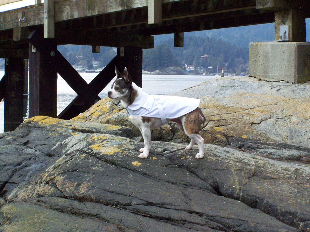 Jax wearing the waterproof Profile Raincoat 100% Recycled PET fabric & 100% Organic Cotton lined